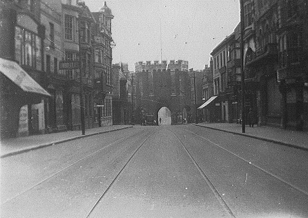 Above Bar Southampton 1926 (poss 1925), showing tramlines to the Bargate which presented a considerable obstacle to those trams and all other forms of motorised transport until 1932 when surrounding buildings and part of the ancient walls were demolished. The Luftwaffe finished off the buildings the planners left behind, but the main portion of the Bargate is still standing.